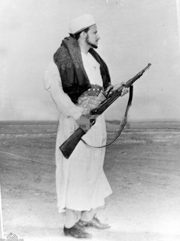 Abd al-Rahman al-Baidhani 1962